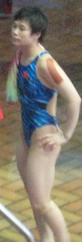 Second day of the 2013 FINA Diving World Series in Moscow. April 27, 2013.